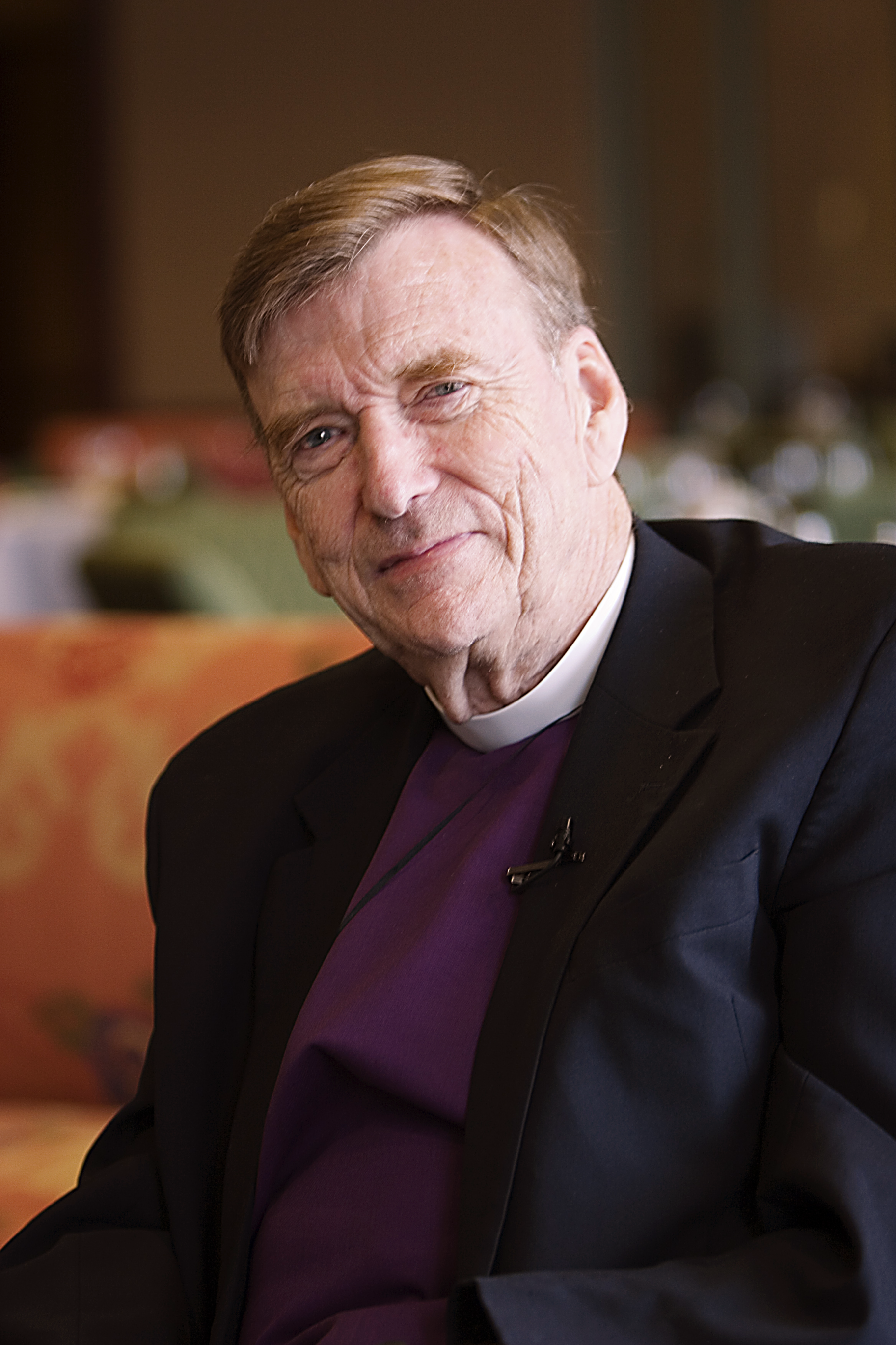 Bishop John Shelby Spong, Episcopal Diocese of Newark, sitting for a portrait photograph.